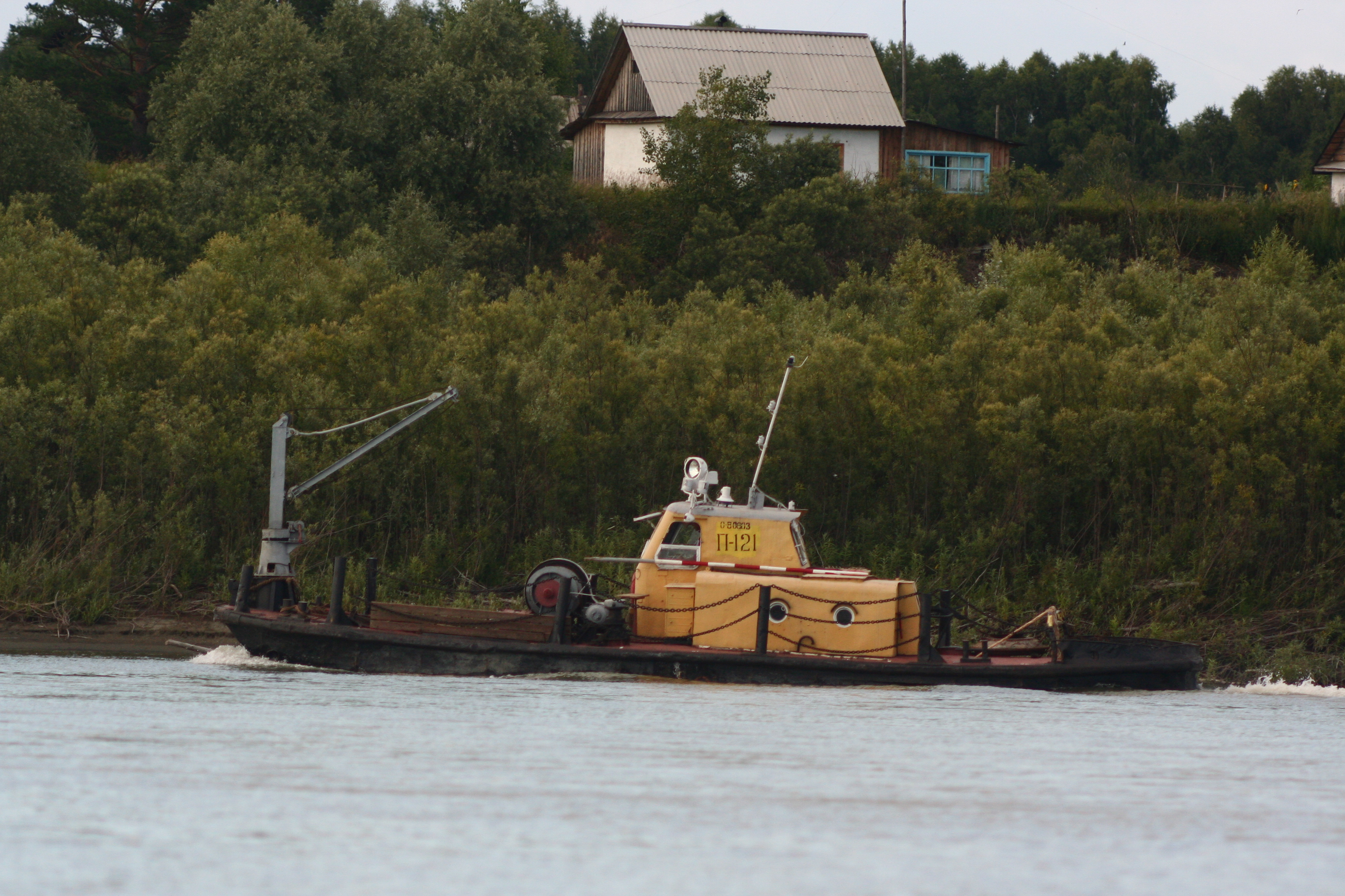 Service boat for dredger ship on Ob River (Russia).